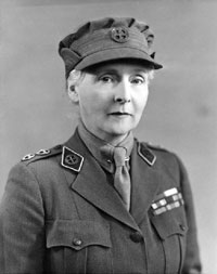 Princess Alice wearing a First Aid Nursing Yeomanry uniform.